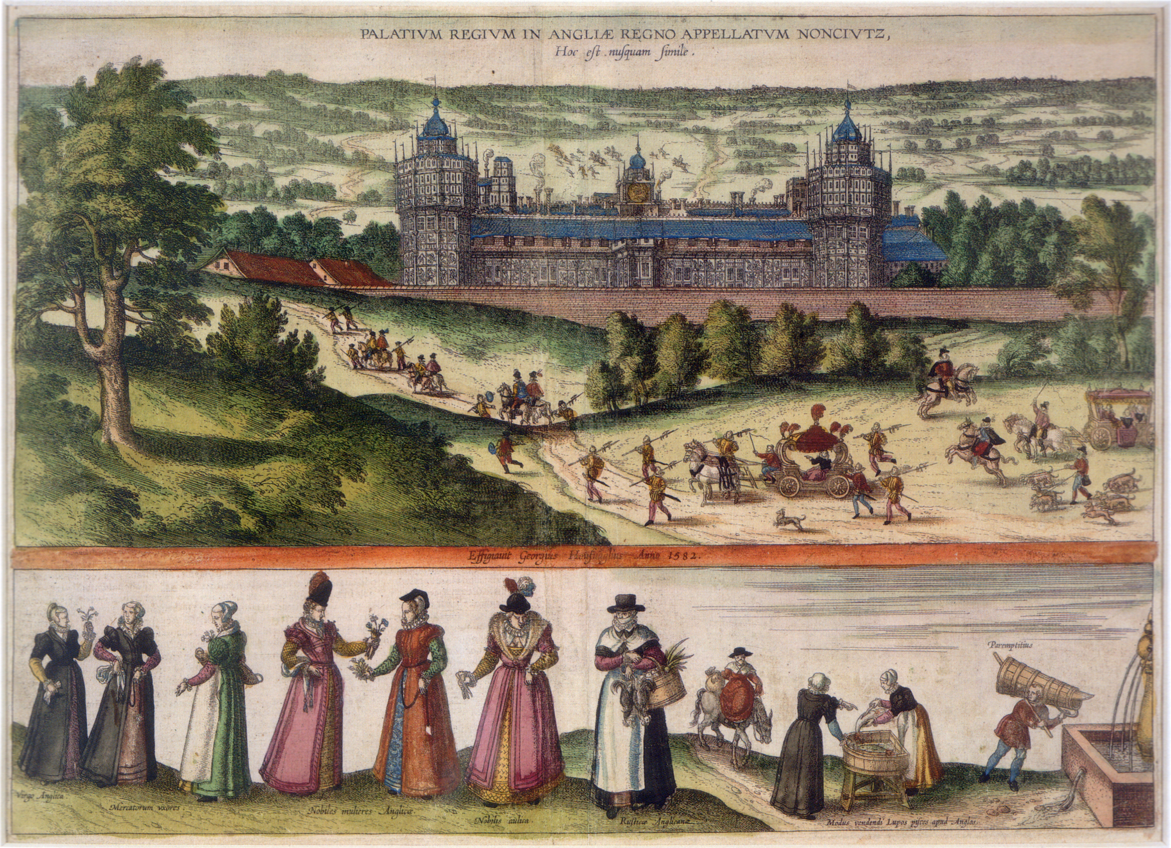 Coloured image of Nonsuch Palace in Surrey, England. Copper engraving by Georg Braun and Franz Hogenberg 1598 from volume V of the town book Civitates Orbis Terrarum, based on a 1582 drawing by Joris or Georg Hoefnagel.